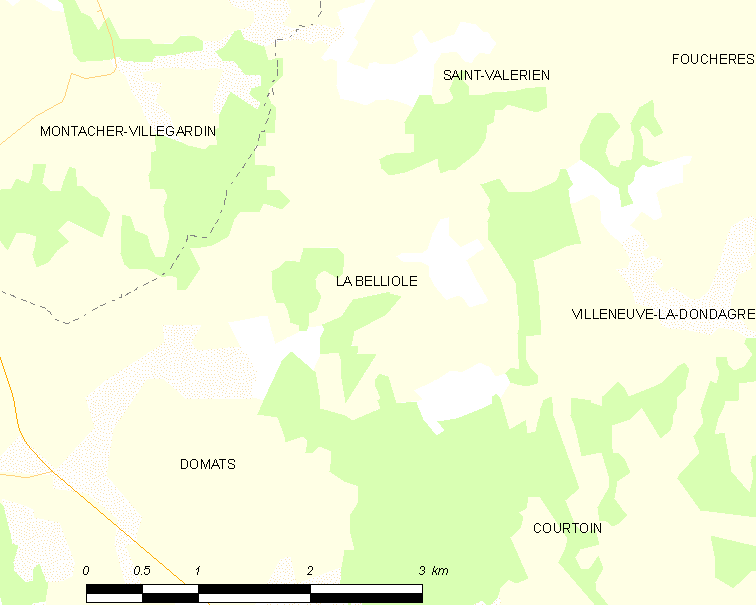 Map of French municipality La Belliole